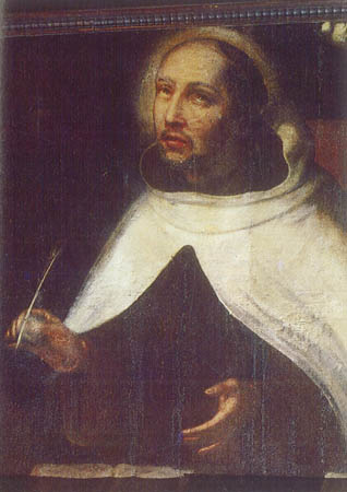 Saint John of the Cross, portrait